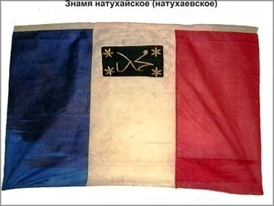 The Natkhwaj Flag until 1860 (Adyghe Tribe)/ in Circassia, with Arabic lettering محمد Done by : ShapsougSochi1864 Date : 2010 Represent the Natkhwaj tribal flag, can be found in the museum of the republic of Adygea.